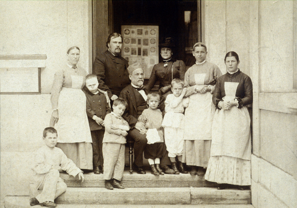 Pasteur and Mechnikov, with children cured of rabies